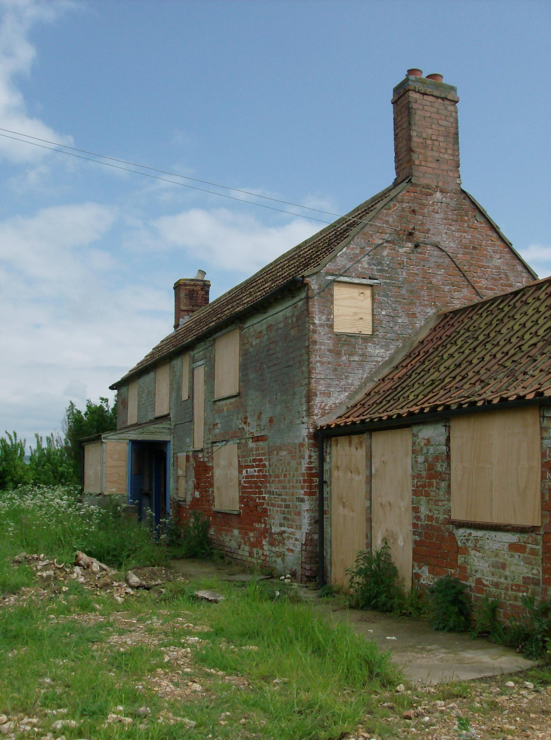 A derelict farmhouse – all that remains of Skinnand village